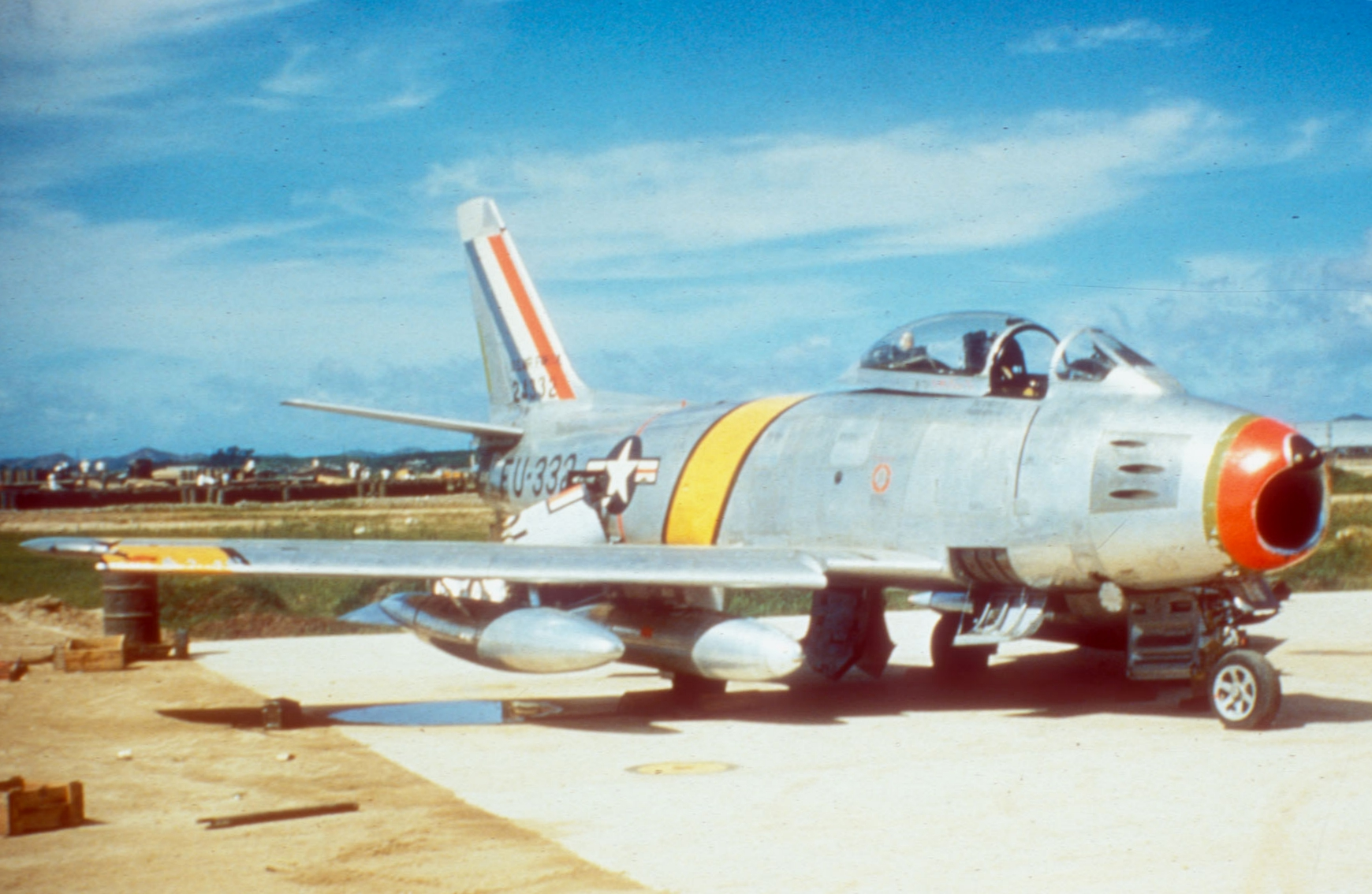 A U.S. Air Force North American F-86F-30-NA Sabre (s/n 52-4332) from the 67th Fighter-Bomber Squadron, 18th Fighter-Bomber Wing in Korea.